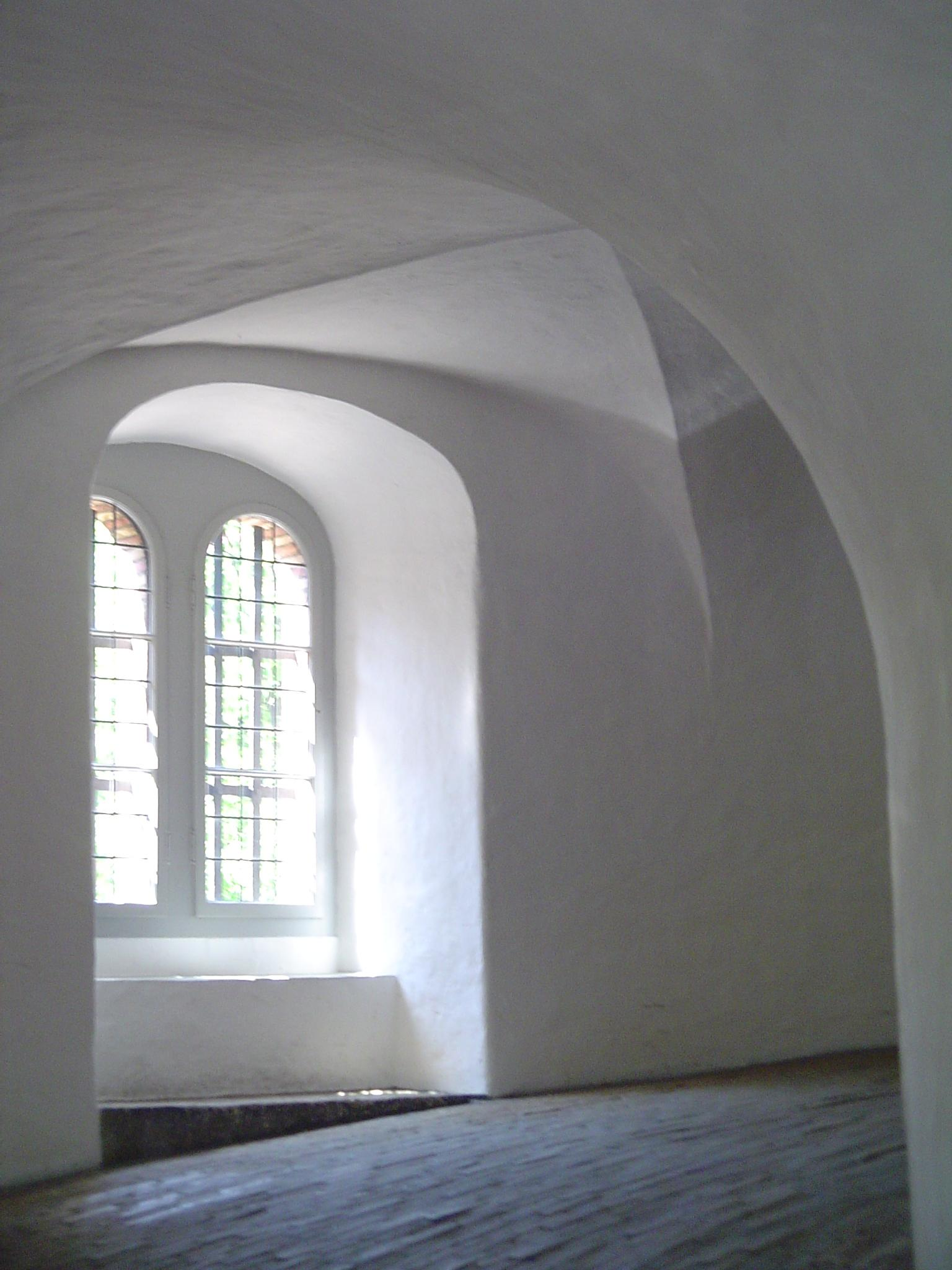 Rundetårn in Copenhagen. Picture by me on 28/5-2005.